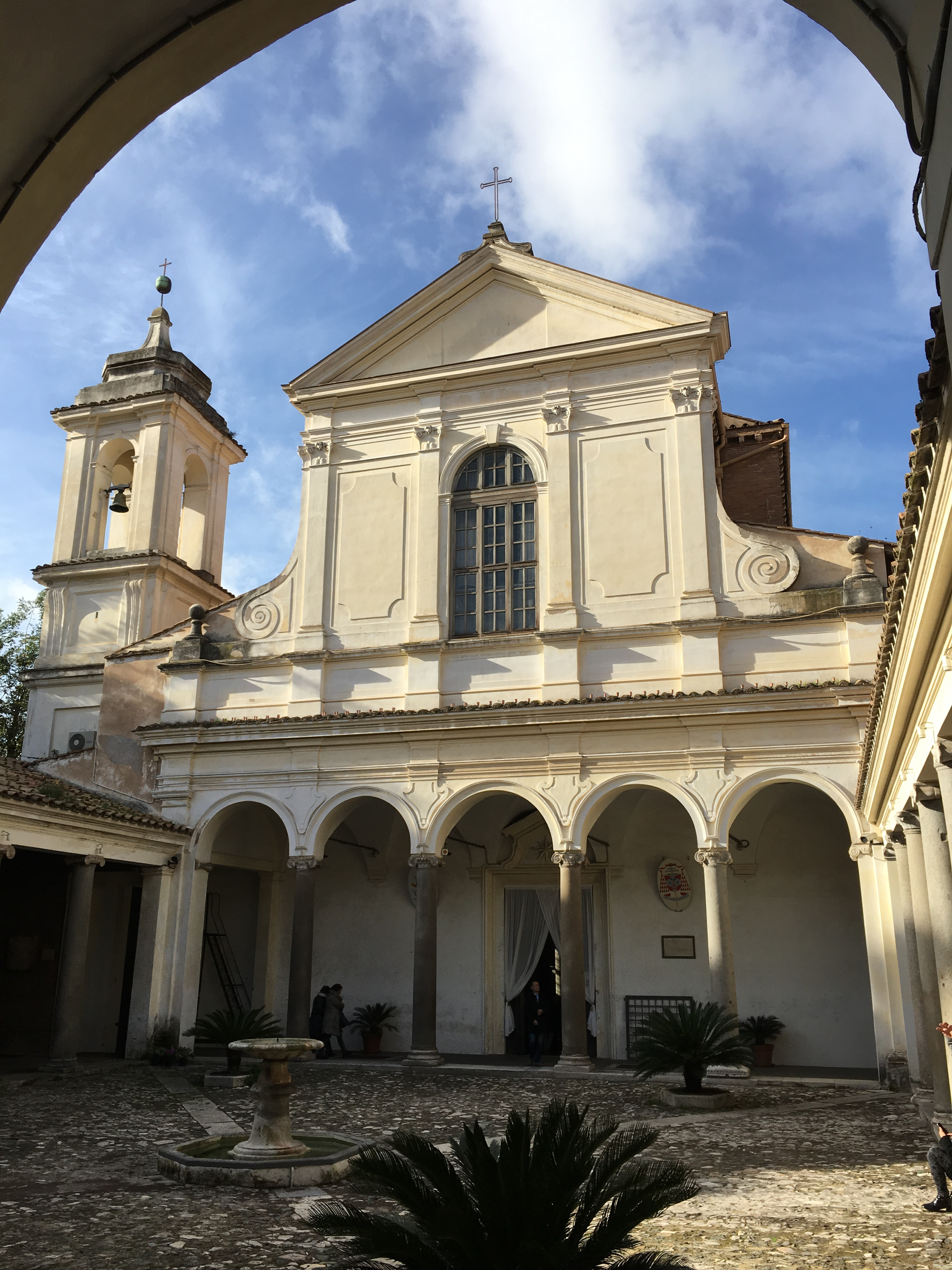 San Clemente in Rome